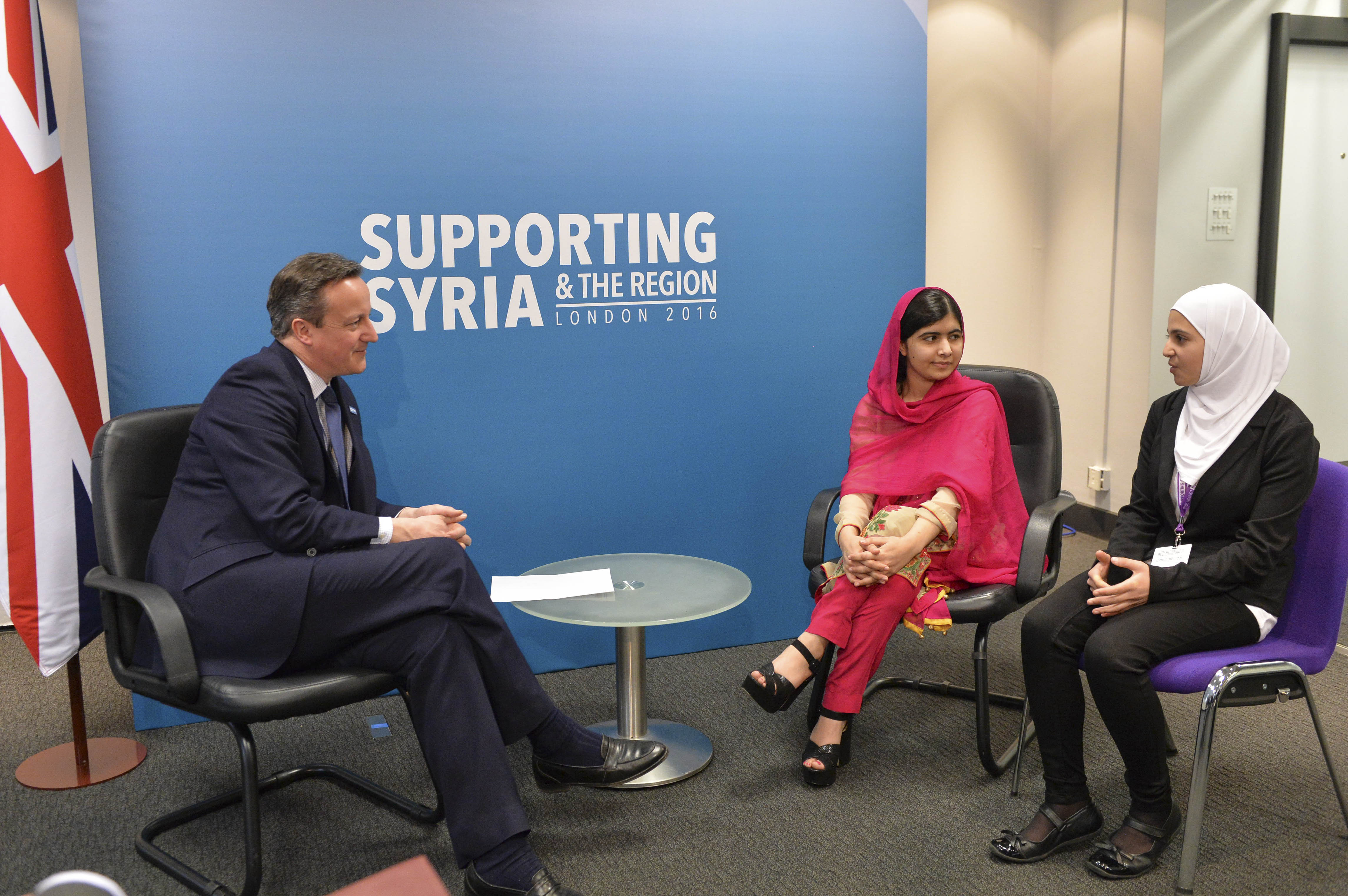 David Cameron meets with Malala Yousafzai at the Syria Conference. BACKGROUND The Supporting Syria and the Region conference took place in London on 4 February 2016. It brought together world leaders in a bid to raise the money needed to help the millions of people whose lives have been torn apart by the devastating civil war in Syria. Syria is the world's biggest humanitarian crisis. Billions of dollars in international aid are needed to support people caught up in the conflict. The UK, Germany, Kuwait, Norway, and the United Nations co-hosted the conference to raise significant new funding to meet the immediate and longer-term needs of those affected. The conference also set ambitious goals on education and economic opportunities to transform the lives of refugees caught up in the Syrian crisis - and to support the countries hosting them. This event alone cannot solve all these problems. Ultimately a political solution is necessary to bring the Syrian conflict to an end. Find out more: FREE-TO-USE PHOTO This image is in the public domain and free-to-use, as long as you credit the source as: Georgina Coupe/Crown Copyright